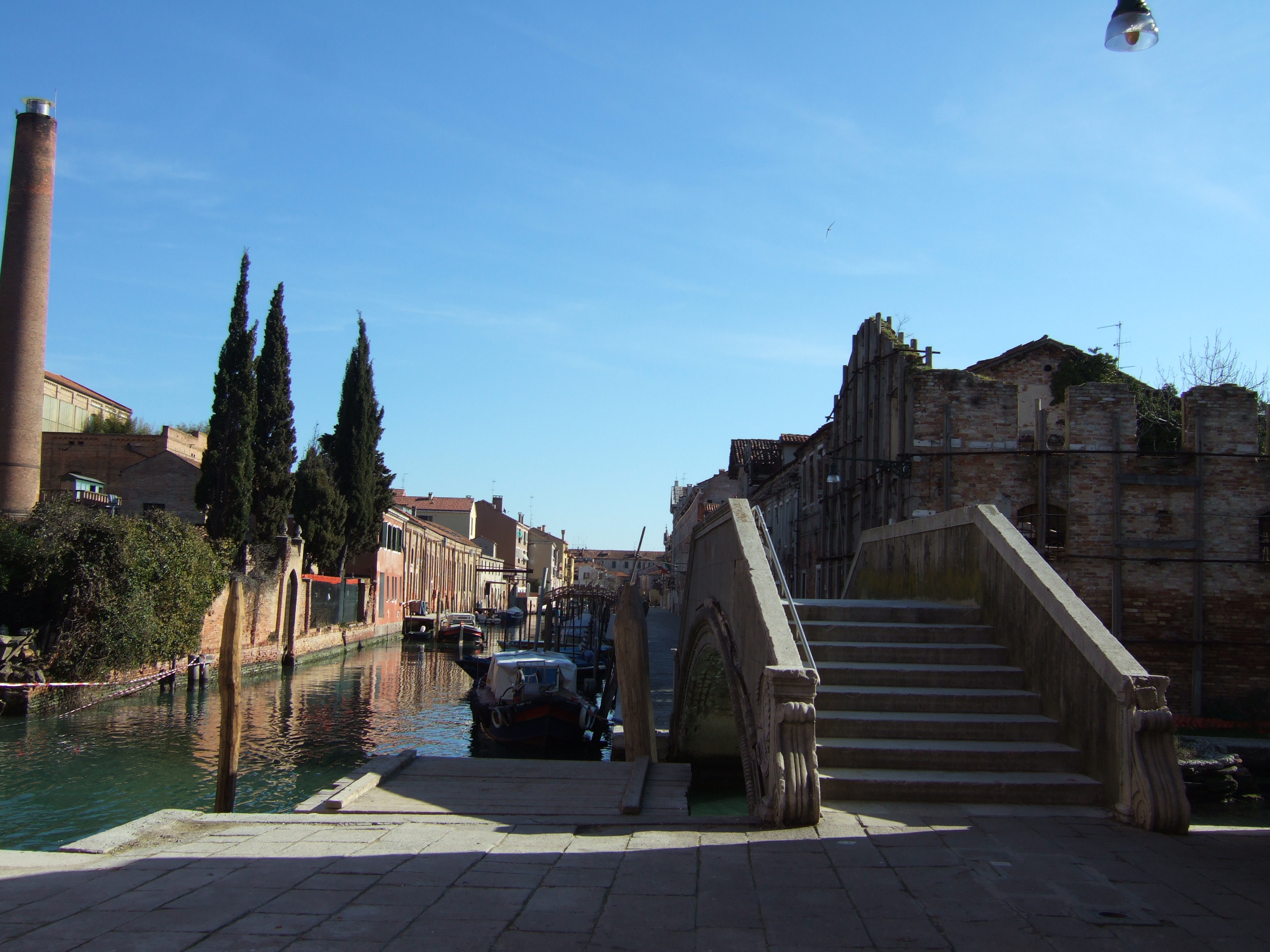 Rio delle Convertite